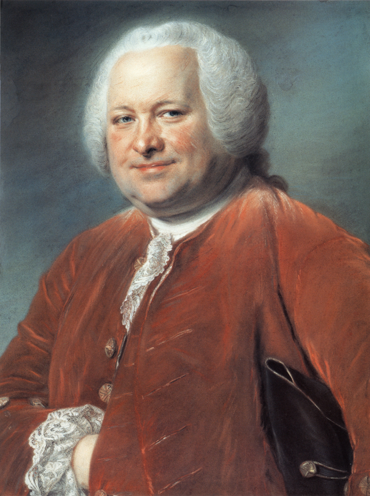 Le Riche de La Pouplinière by Maurice Quentin de La Tour, former. coll. Deutsch de La Meurthe, inv. Wildenstein & Besnard 1928, Versailles MV 8353.